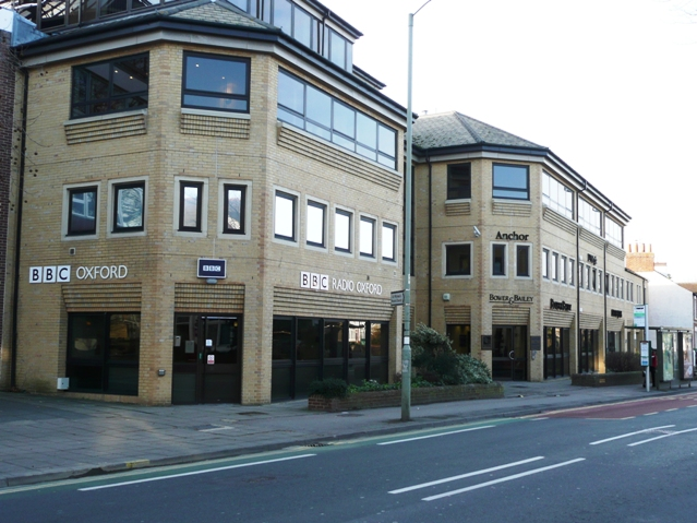 BBC Oxford This is where the local broadcasting takes place.